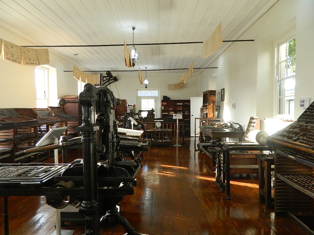 A museum which celebrates South Africa's printing heritage This media shows a South African Protected Site with SAHRA file reference 0.